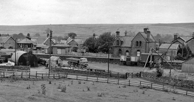 Bellingham (North Tyne) Station. View southwards, across Border Counties) line: Hexham (left)- Riccarton Junction (right). Station closed to passengers 15/10/56, goods 11/9/63. Line closed completely Bellingham - Riccarton Junction 15/9/58, Hexham - Bellingham 11/11/63.